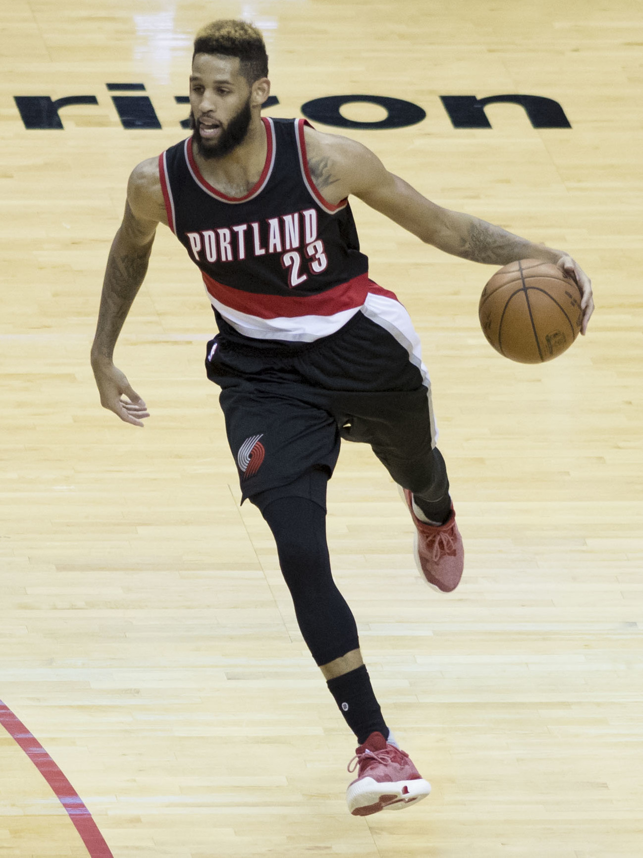 Trail Blazers at Wizards 1/16/17